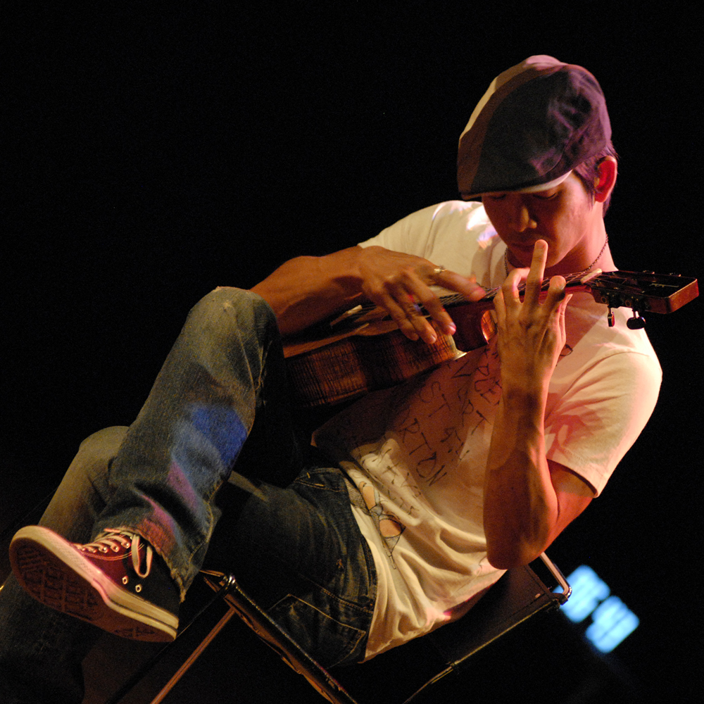 Jake Shikimoburo playing ukelele at Stockholm JazzFest09